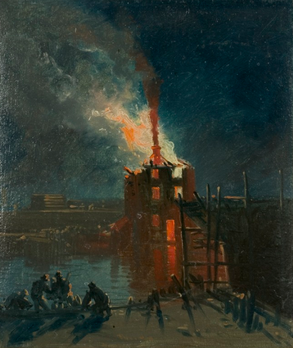 James Baker Pyne, Warehouse from Wapping